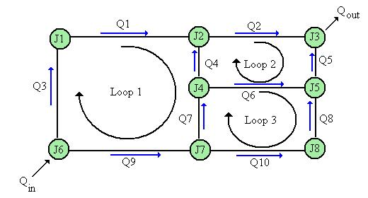 Demonstrates a pipe network with flows Qi and junctions Ji